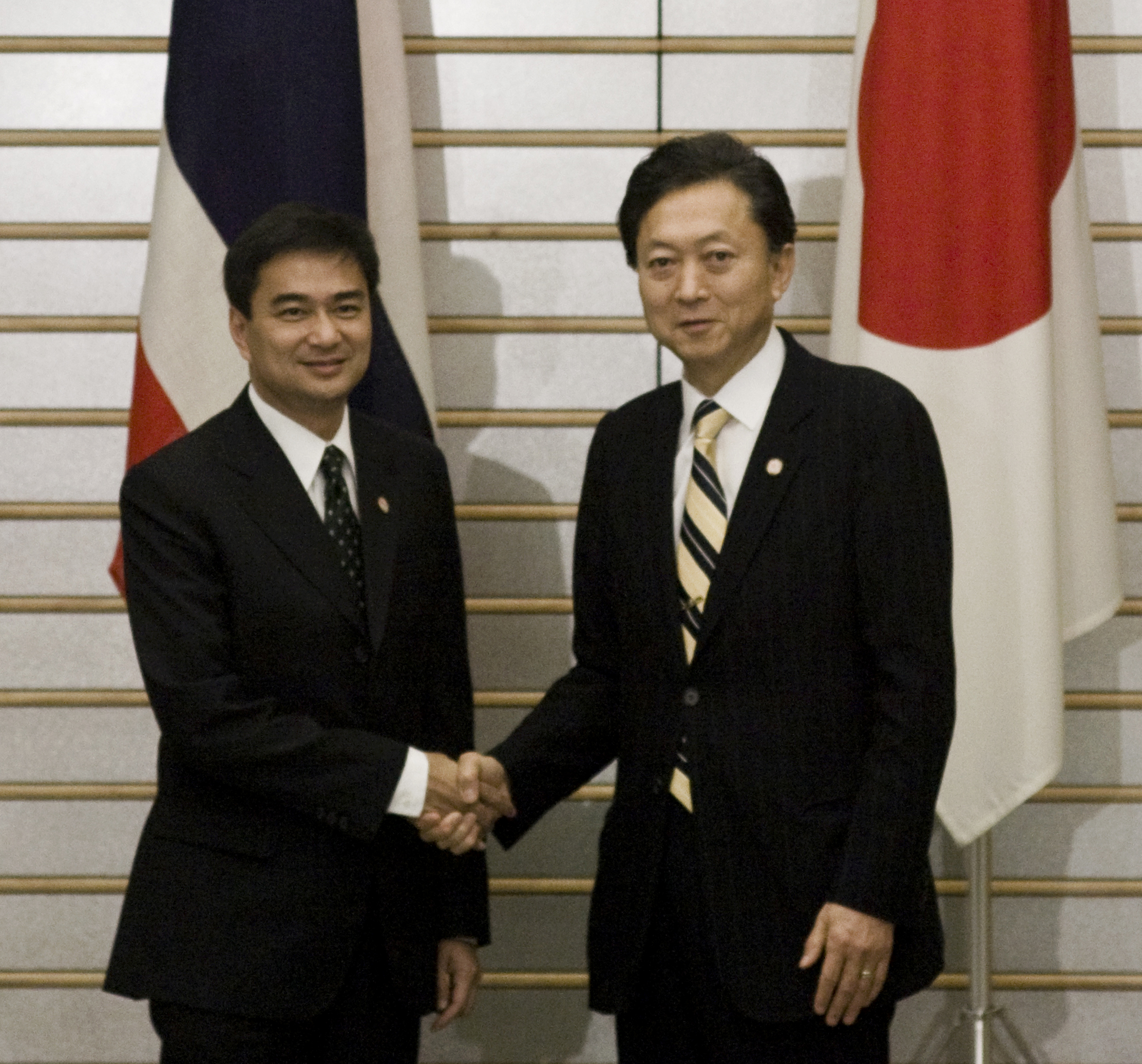 Abhisit Vejjajiva, Prime Minister, shaked hands with Yukio Hatoyama, Prime Minister, at the Kantei in Chiyoda Ward, Tōkyō Metropolis on November 8, 2009.